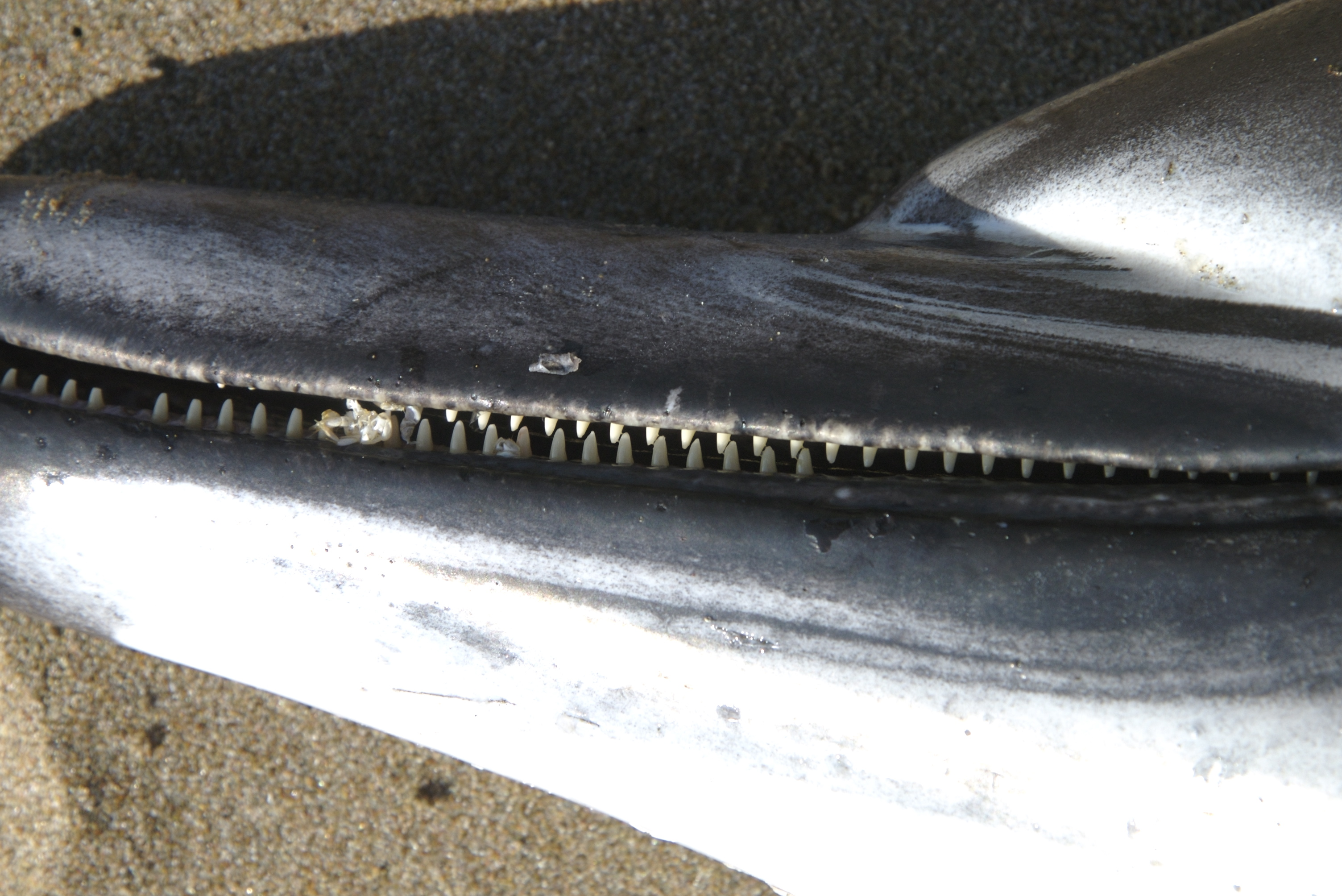 Photo of the homodont (similar) teeth of the dolphin Delphinus delphis. Locality: near the Hazard Reef Sandy Beach.